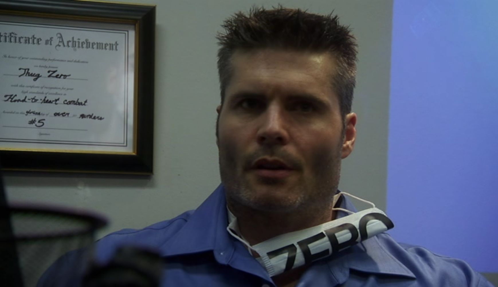 John Turk as Thug Zero in the movie Henchmen.